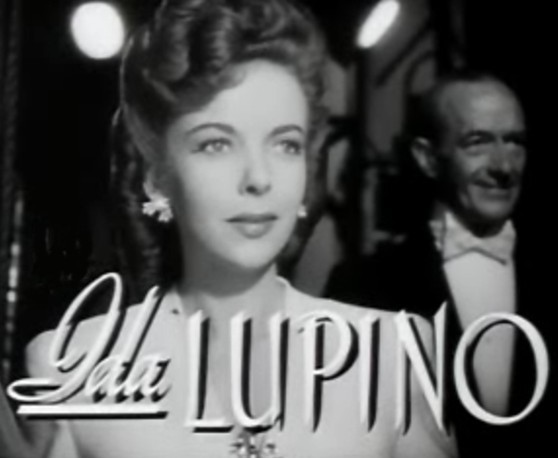 Cropped screenshot of Ida Lupino from the trailer for the film The Hard Way